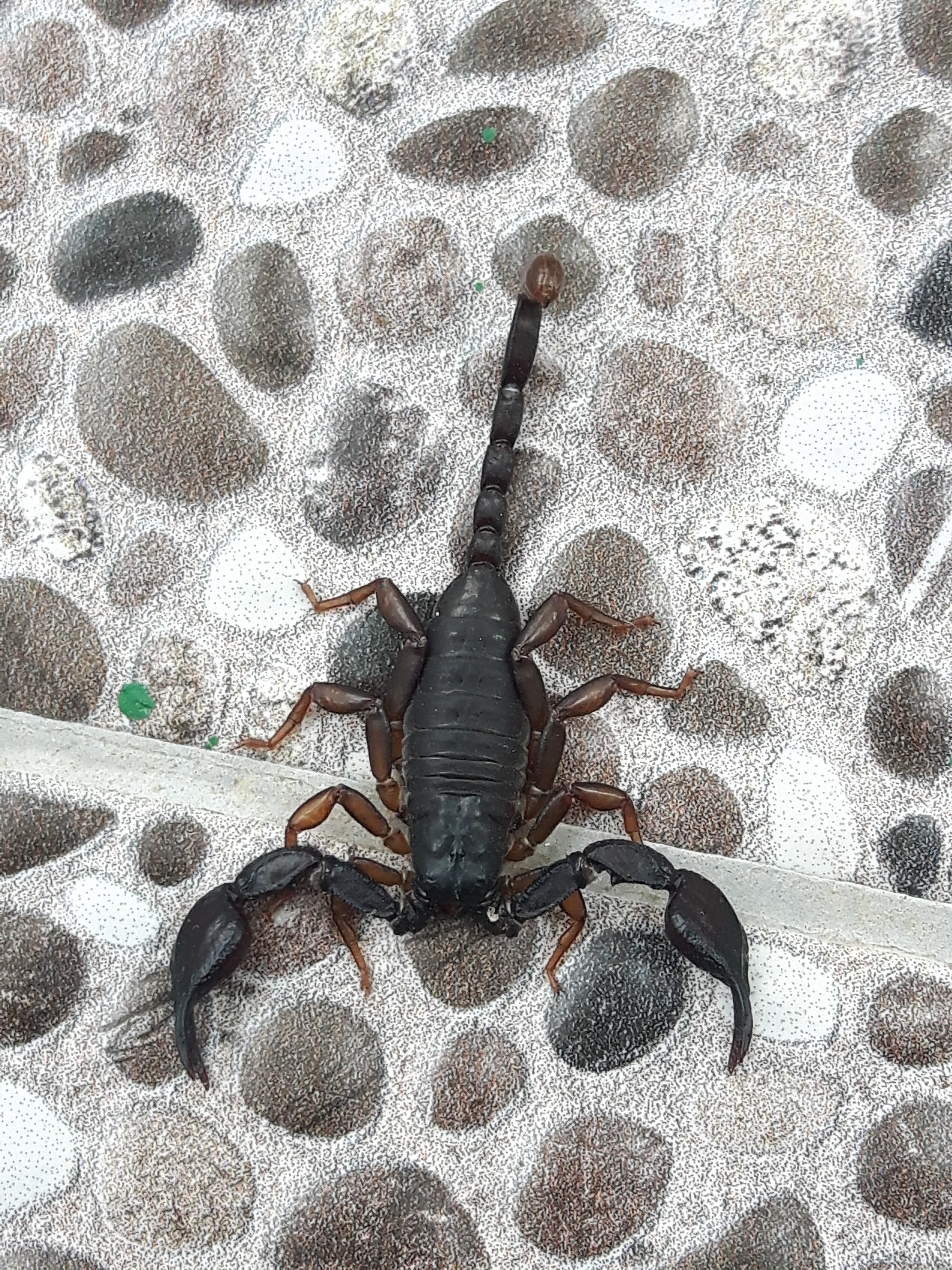 black scorpion alive individual